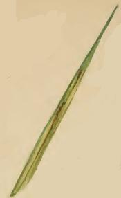 Stainton’s Natural History of the Tineina (1855–1873): Elachista utonella mined leaf of Carex flacca.